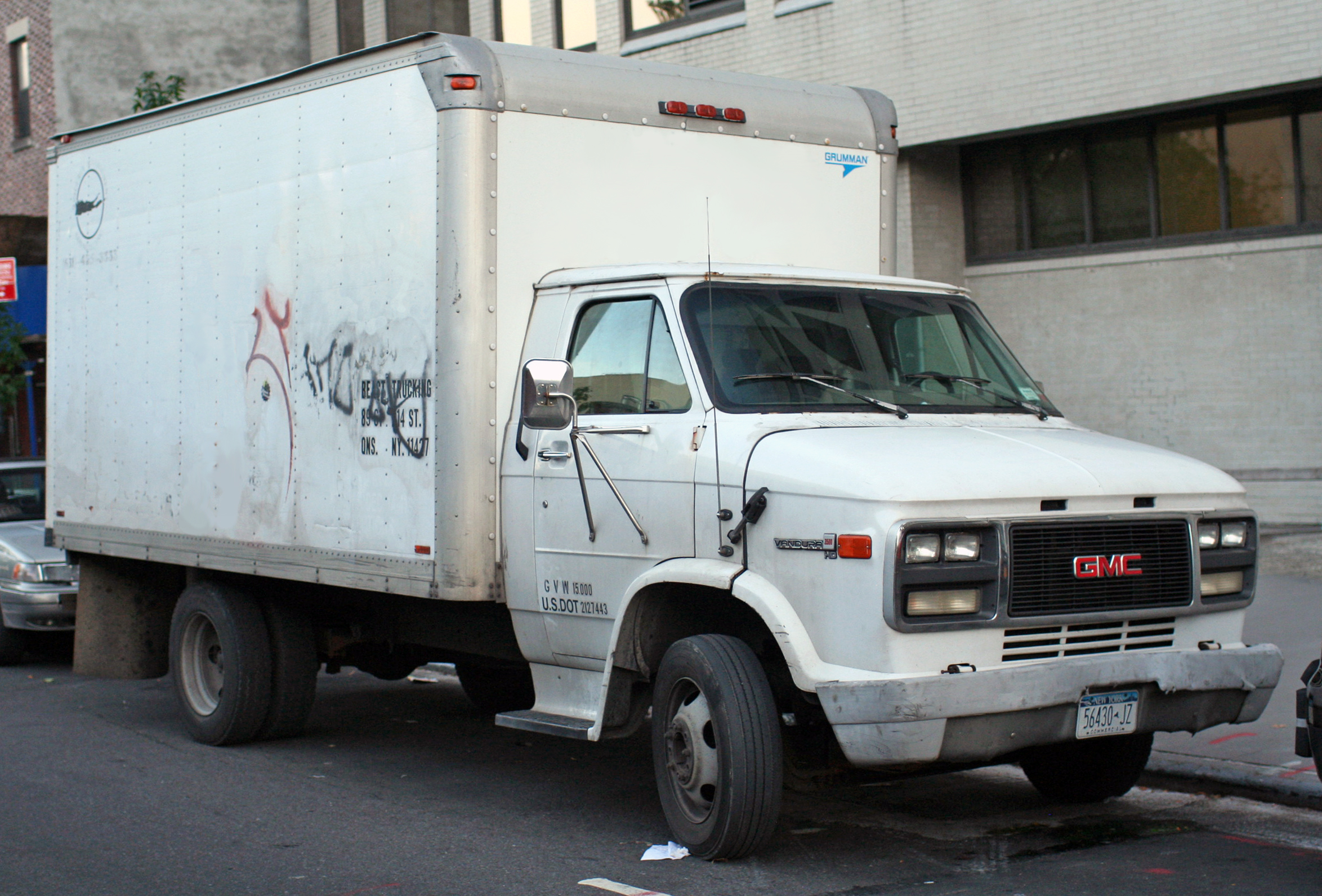 1995 GMC Vandura 3500 HD box van, with the 350ci V8